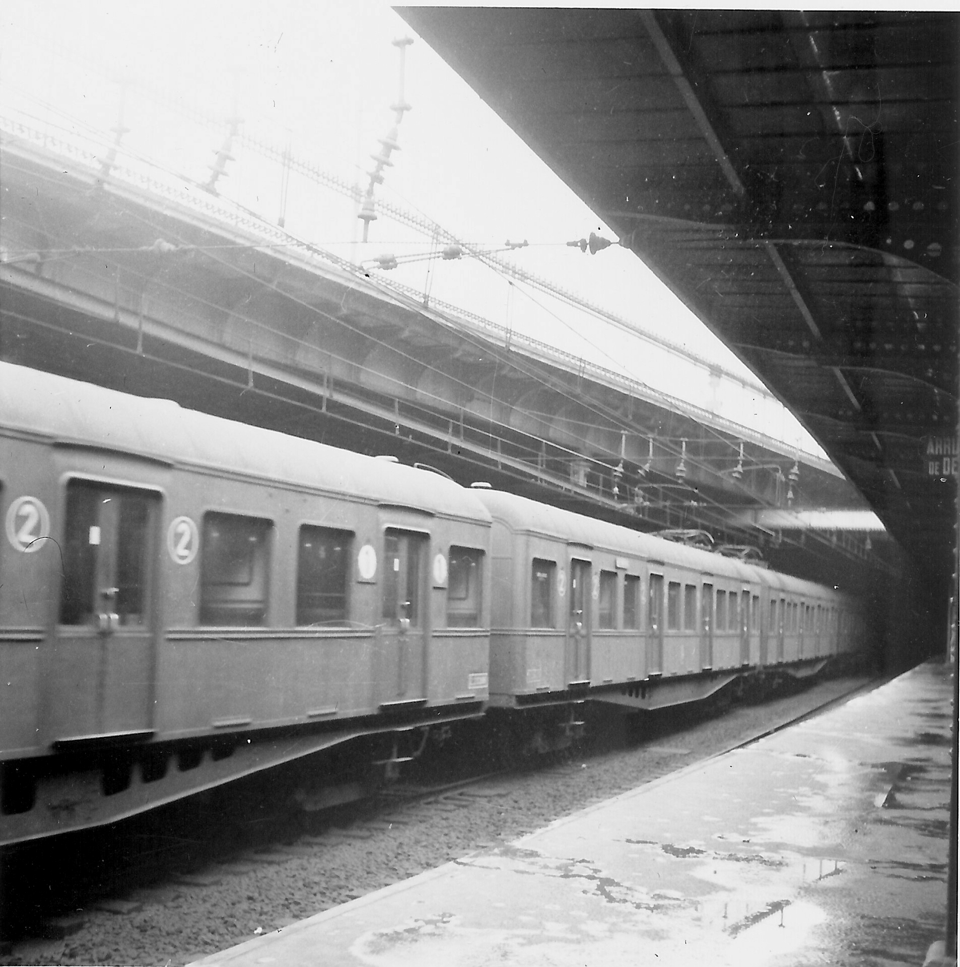 Station of Port-Royal on the ligne de Sceaux (Paris, 5th arrond., France).